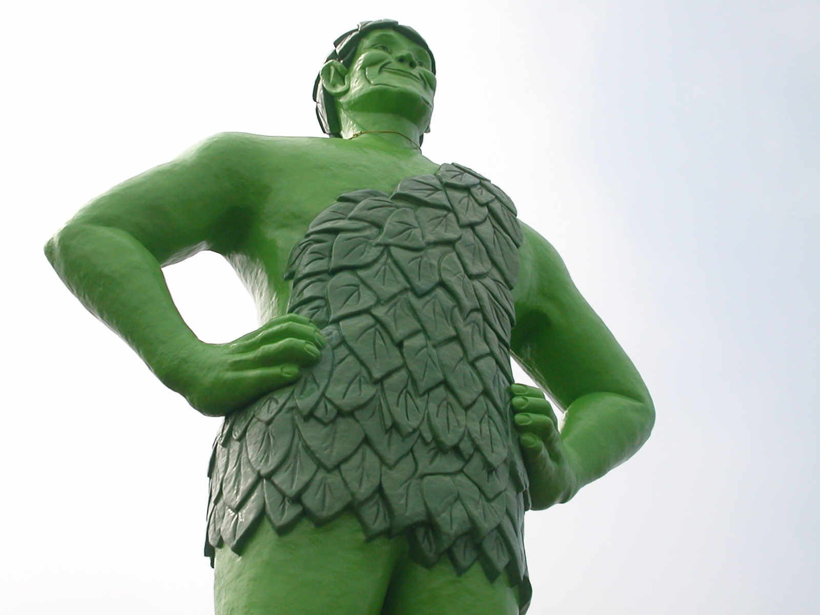 He watches over the gas stations and trinket stops of Blue Earth, MN.